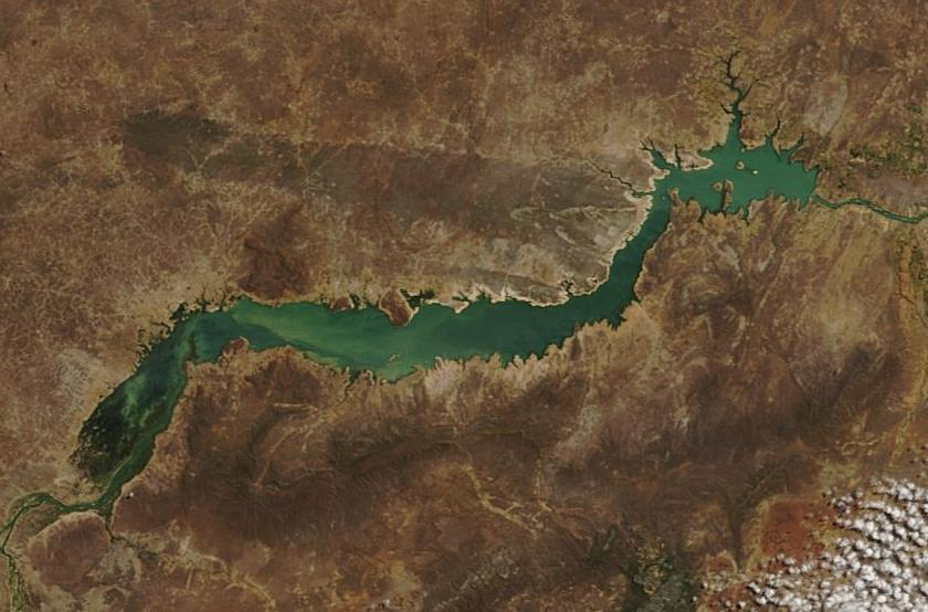 A Satellite picture showing the Sobradinho Reservoir and surroundings in august 2018.